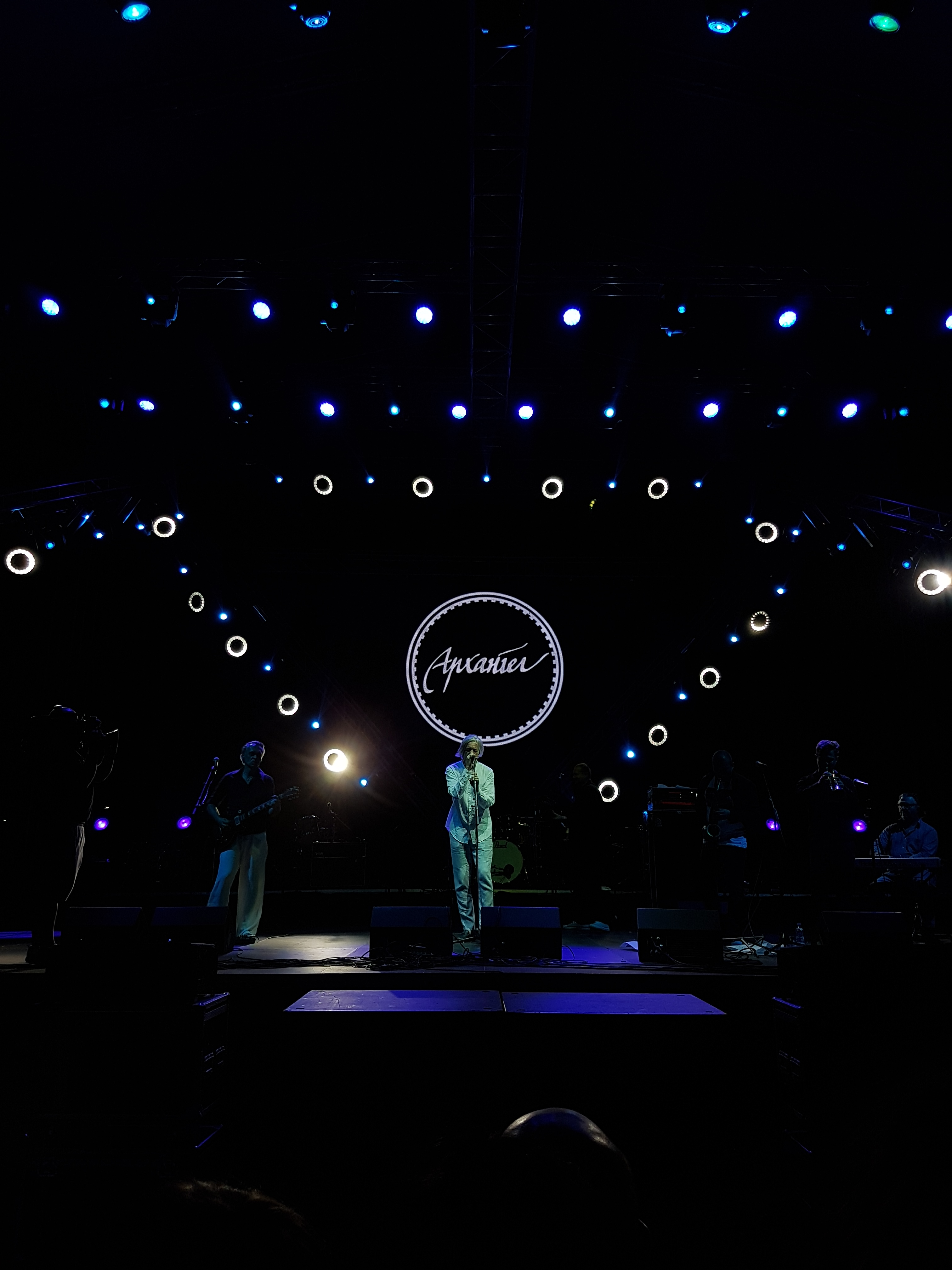 Arhangel at D Fest in Dojran 2018.